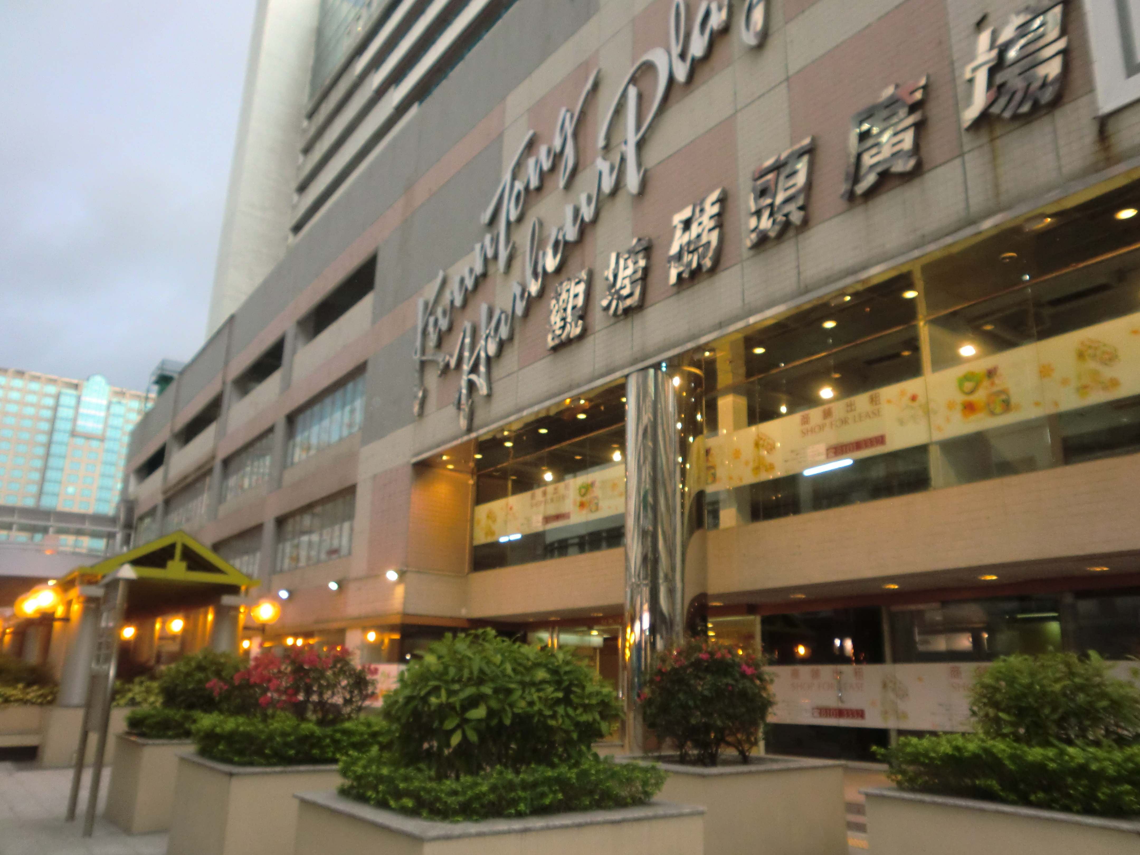 Kwun Tong Harbour Plaza main enterance near Wai Yip Street Sitting-out Area